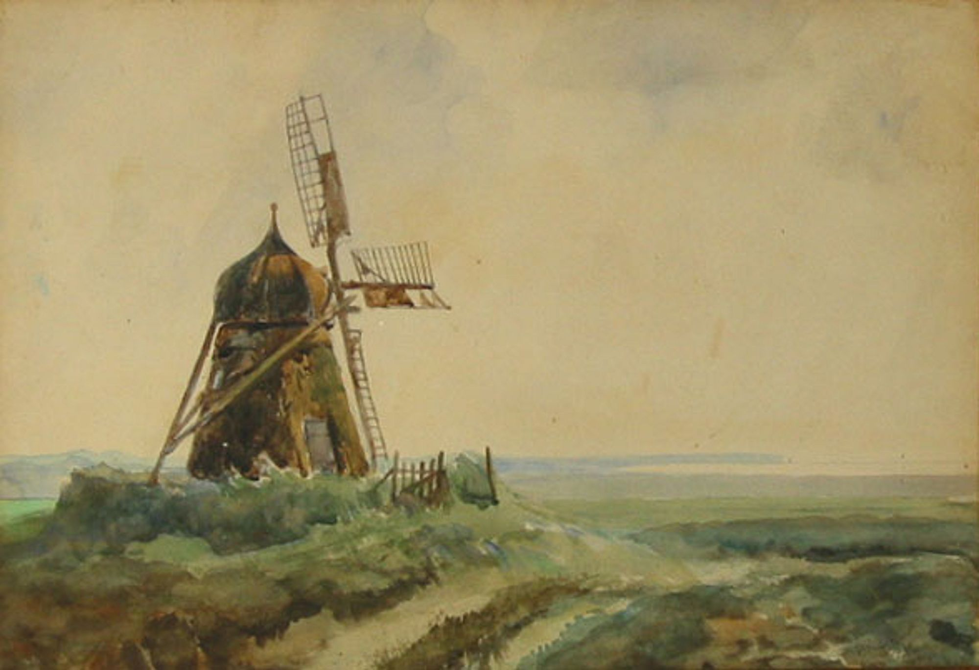 A text on the verso attributes the painting to Hans Nikolaj Hansen.